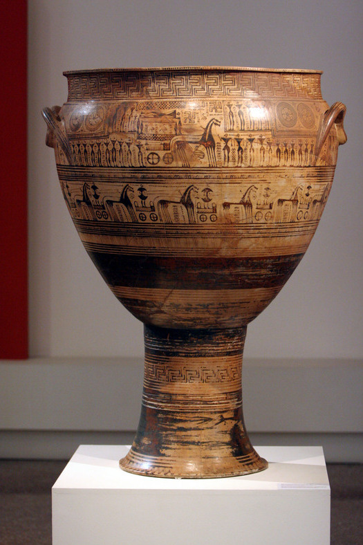 Attic late geometric krater depicting ekphora, the act of carrying a body to its grave.